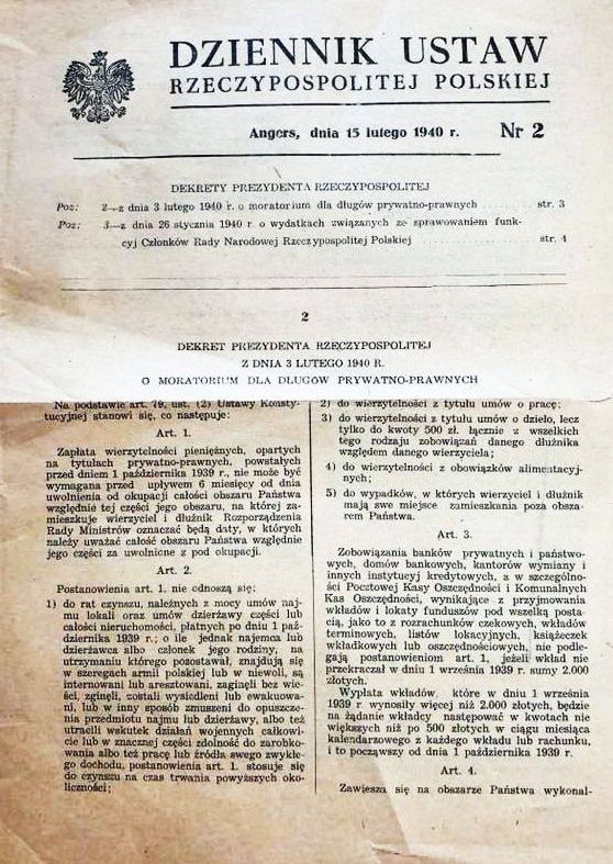 First page of Dziennik Ustaw nr 2/1940